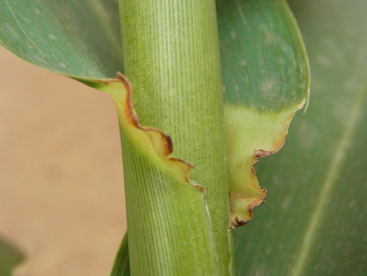 Giant Cane (Arundo donax), Cales Coves, Menorca